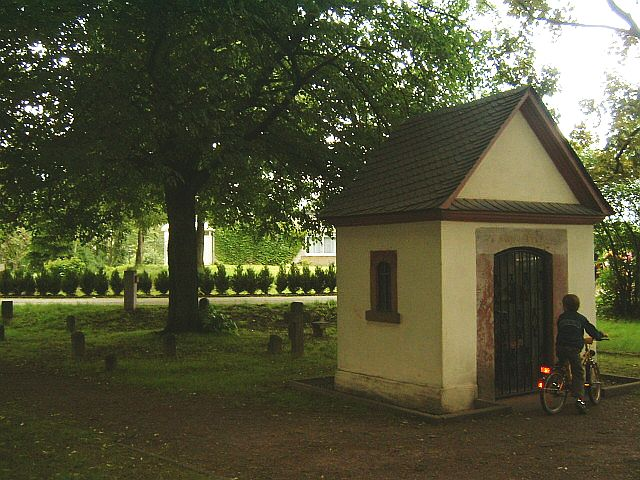 Little Chapel in Frankfurt-Harheim, built in 1763, near the Bonifatiusroad in the Eschbachaue. Selfmade4 on 4.June 2006 --Peng 11:58, 5 June 2006 (UTC)